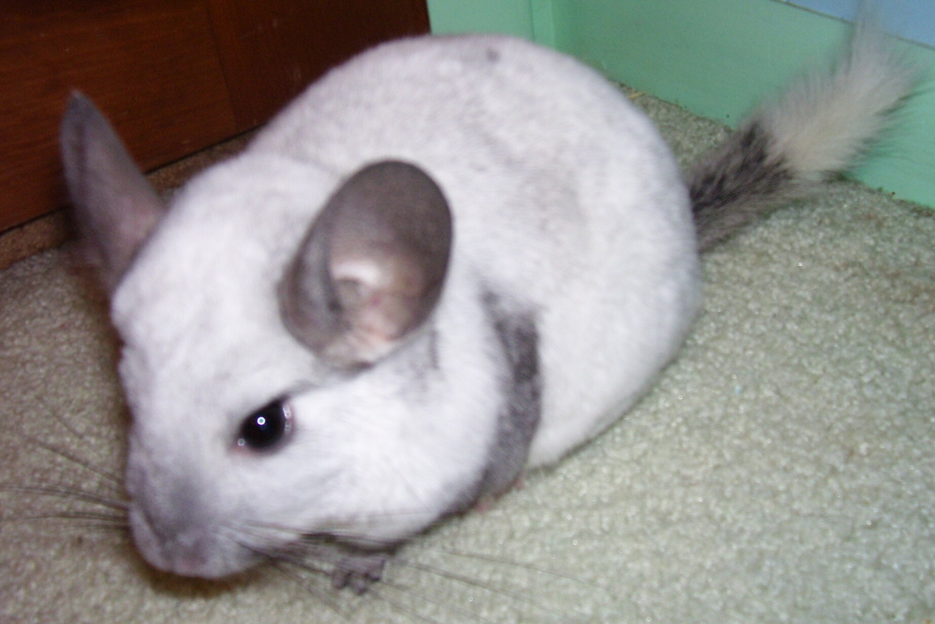 Silver Mosaic Chinchilla with dark gray marking